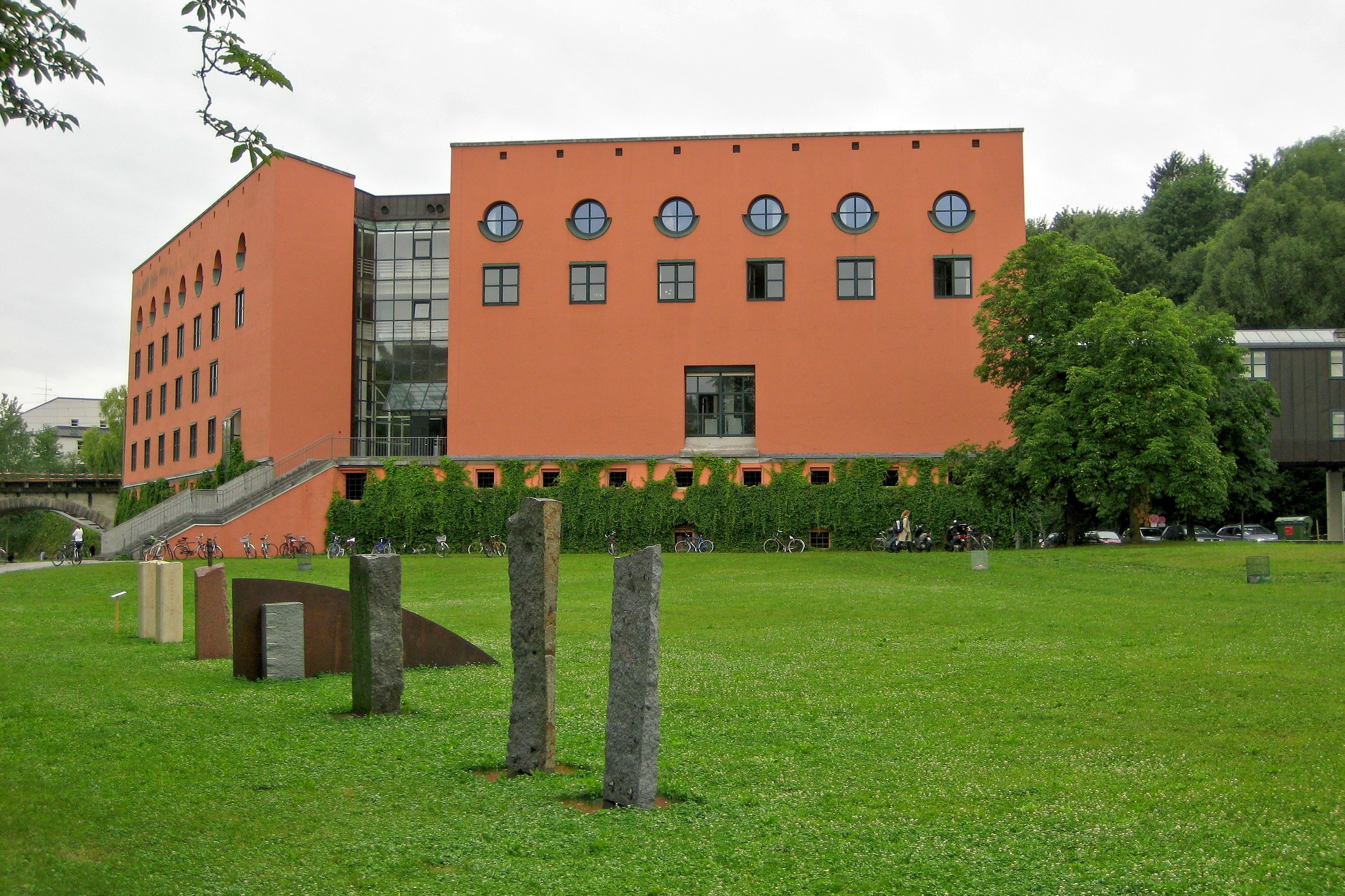 University of Passau